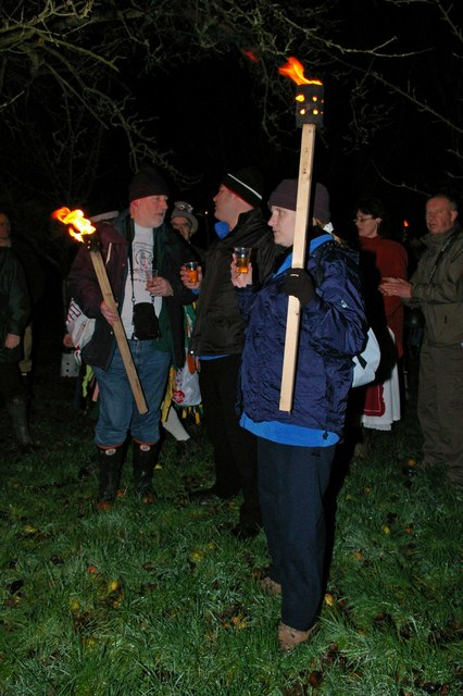 Sampling. After singing the wassailing song reading a verse and creating as much noise as possible the wassailers sample a brew that is at least two years old. There is then the 306054 back in the pub where JB's cider can be enjoyed